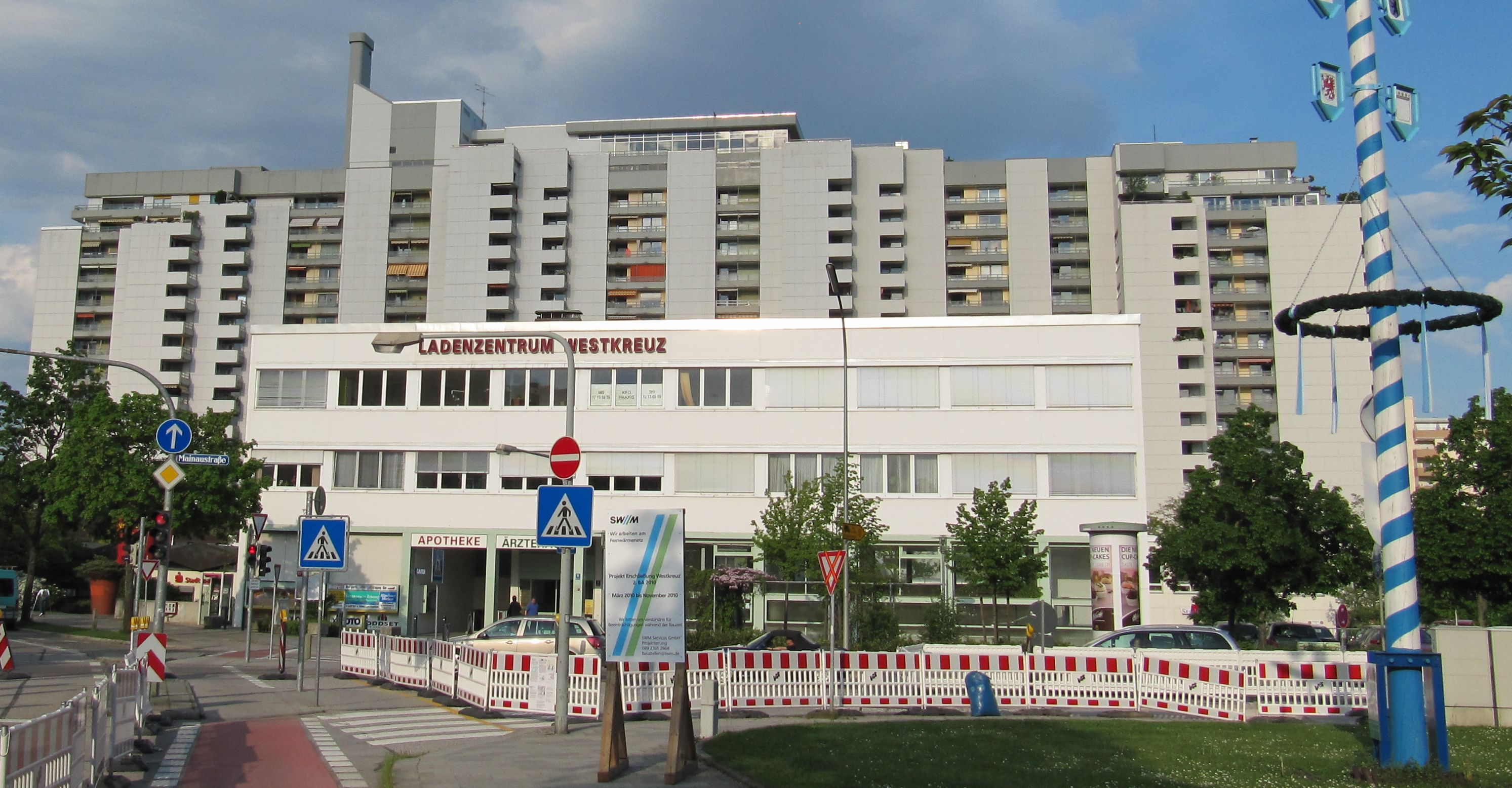 Munich-Aubing:The building "Ramses" at the area "Am Westkreuz".